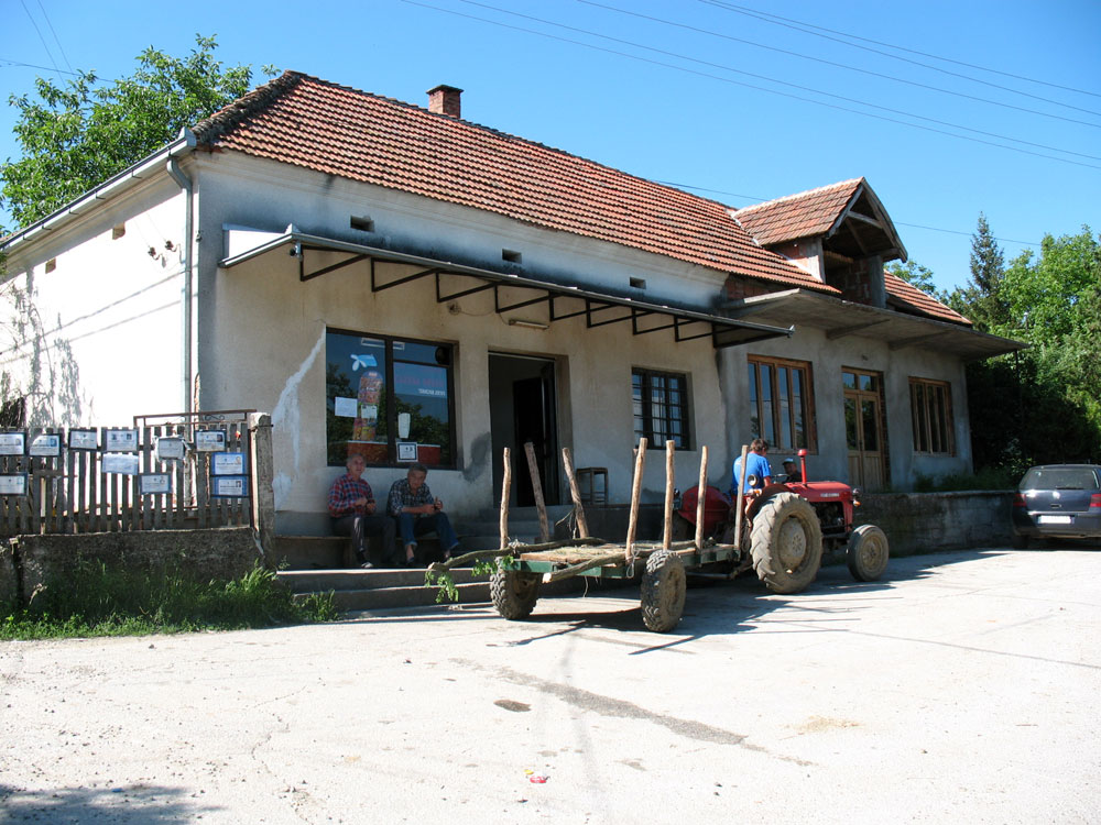 Market in Sekurič